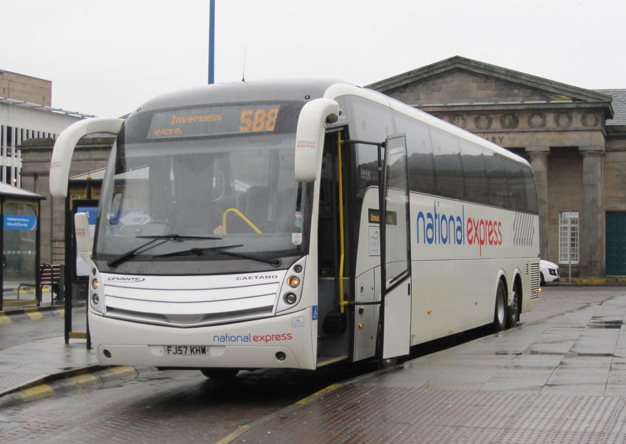 Bruce Coaches FJ57 KHW Caetano Levante in National Express livery, in Invernes Bus Station